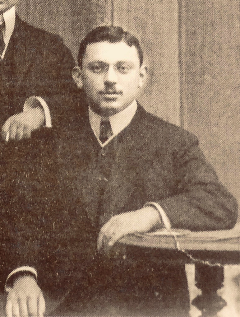 The German entrepreneur Anton Bamberger (1886–1950), who founded enterprises in Hanover and in New York City (Hanover: Co-founder of Bolte & Co. KG; USA: Founder and owner of A. Bamberger Corporation, American Molding Powder & Chemical Corporation, trade name Ampacet).